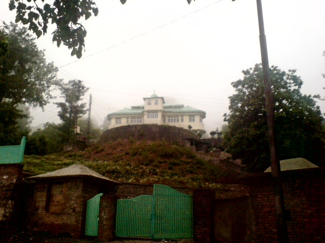 Sindh House in Murree. I took this picture from Murree Bypass Road. Edited. Author: I am Source: I am